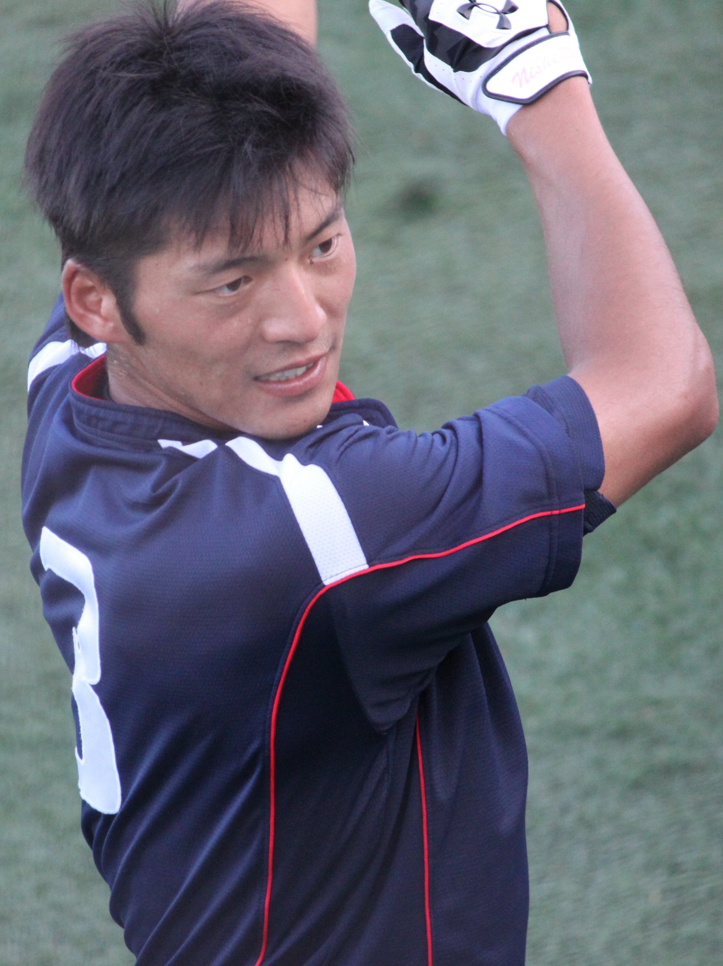 Naomichi Nishiura, infielder of the Tokyo Yakult Swallows, at Yokosuka Stadium.